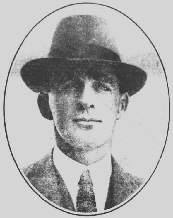 Original caption: Cecil Godby, one of Australia's most capable racehorse trainers